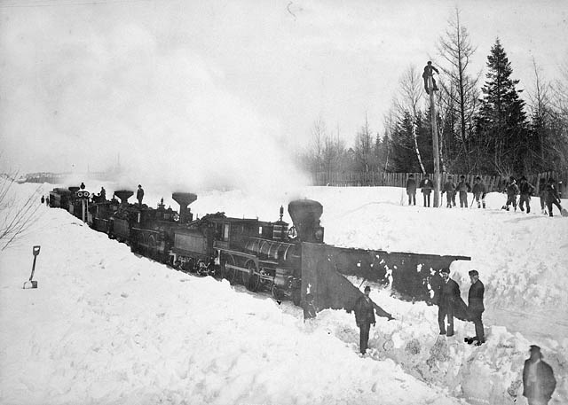 Grand Trunk Railway. Snowplough engine and workers at Chaudière Station (today part of the Charny neighborhood of Lévis, Quebec).